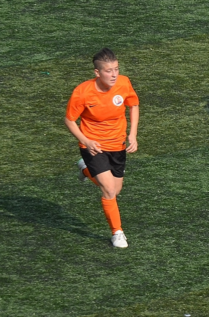 Selin Sivrikaya playing for 1207 Antalya Muratpaşa Belediyespor in the 2015-16 season's away match against Kireçburnu Spor